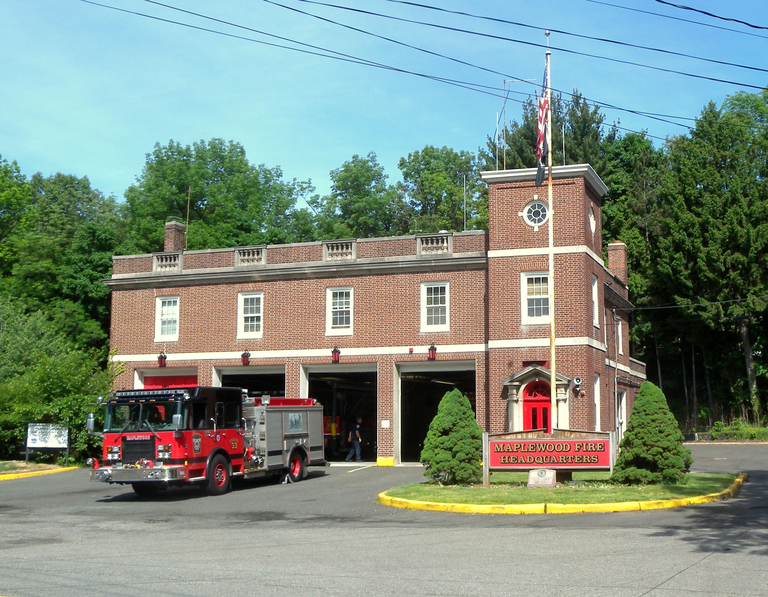 Looking west from Oakland Rd and Dunnell Rd at Fire Department HQ on a sunny morning. See also File:Maplewood Fire HQ jeh.JPG.